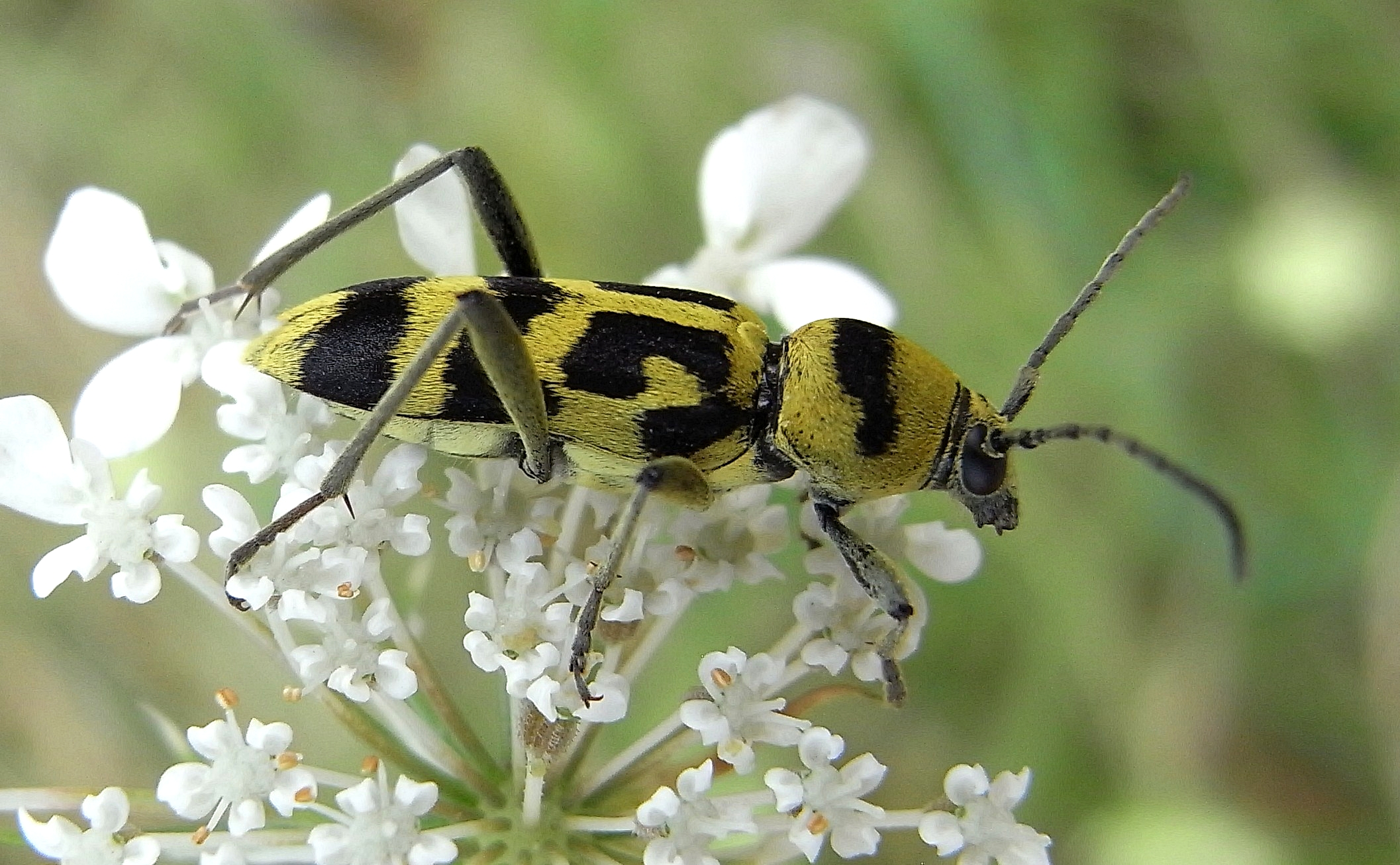 Chlorophorus varius from Hungary, near Kesthely at 2010-07-19 Ricoh R8